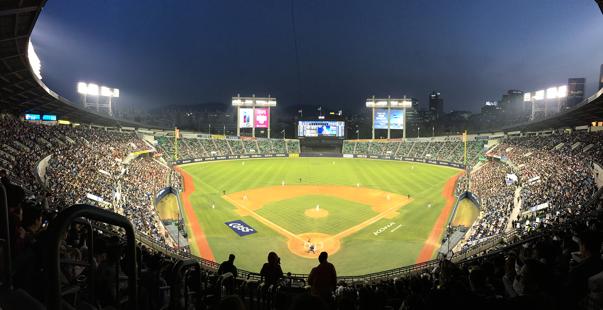 Jamsil Baseball Stadium panorama (April 28 2017)